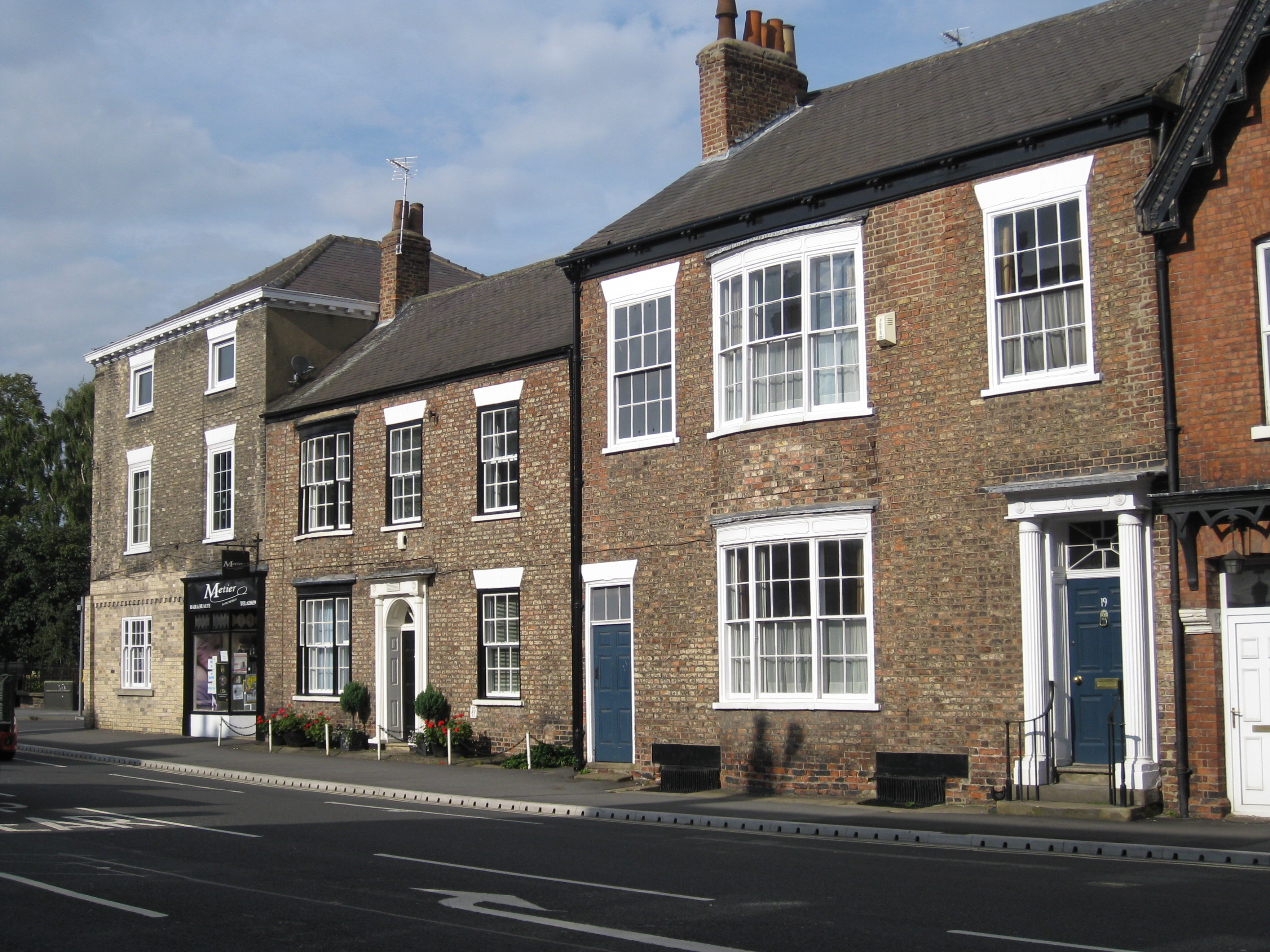 Buildings on Main Street, Fulford, YO10 4PJ